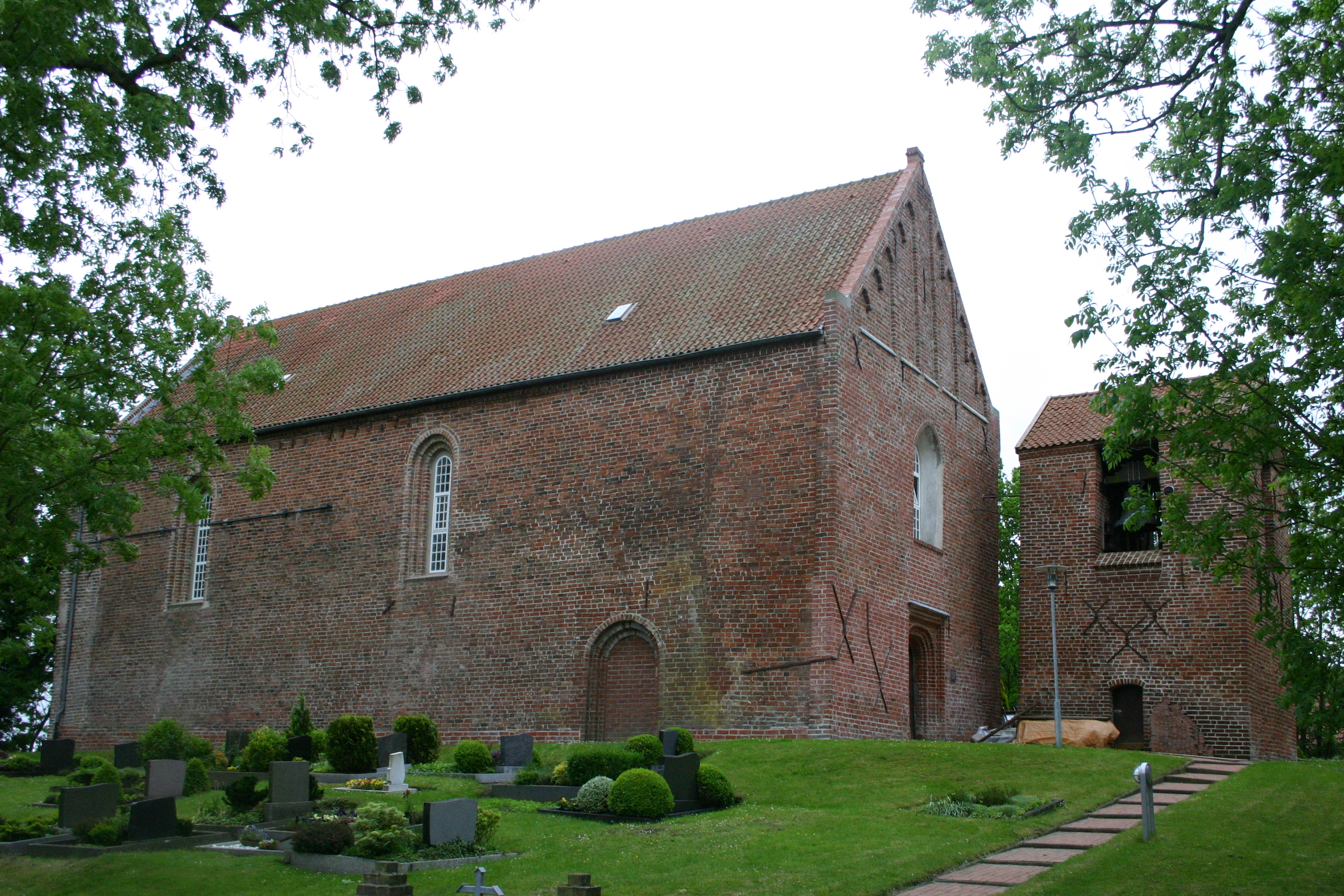 Historic church in Funnix, district of Wittmund, East Frisia, Germany